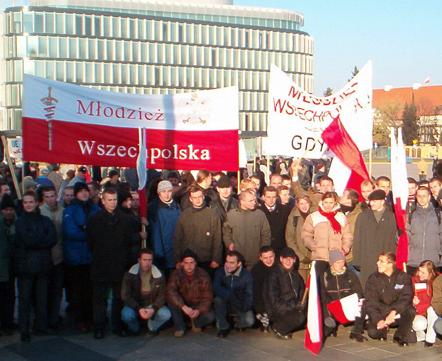 A group of All-Polish Youth with banners and flags